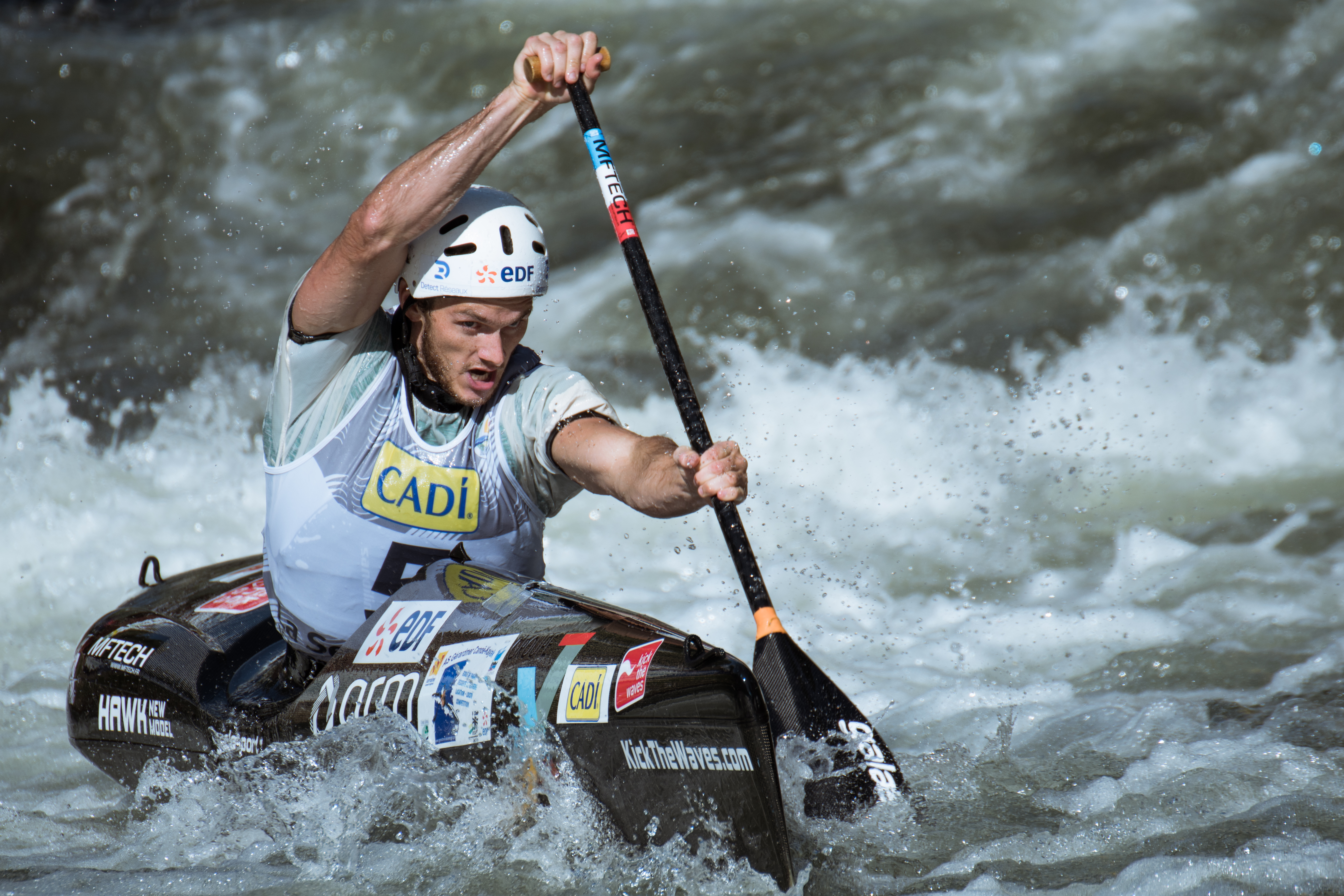 Louis Lapointe during the 2019 Canoe Wildwater World Championships in La Seu d'Urgell, Spain.